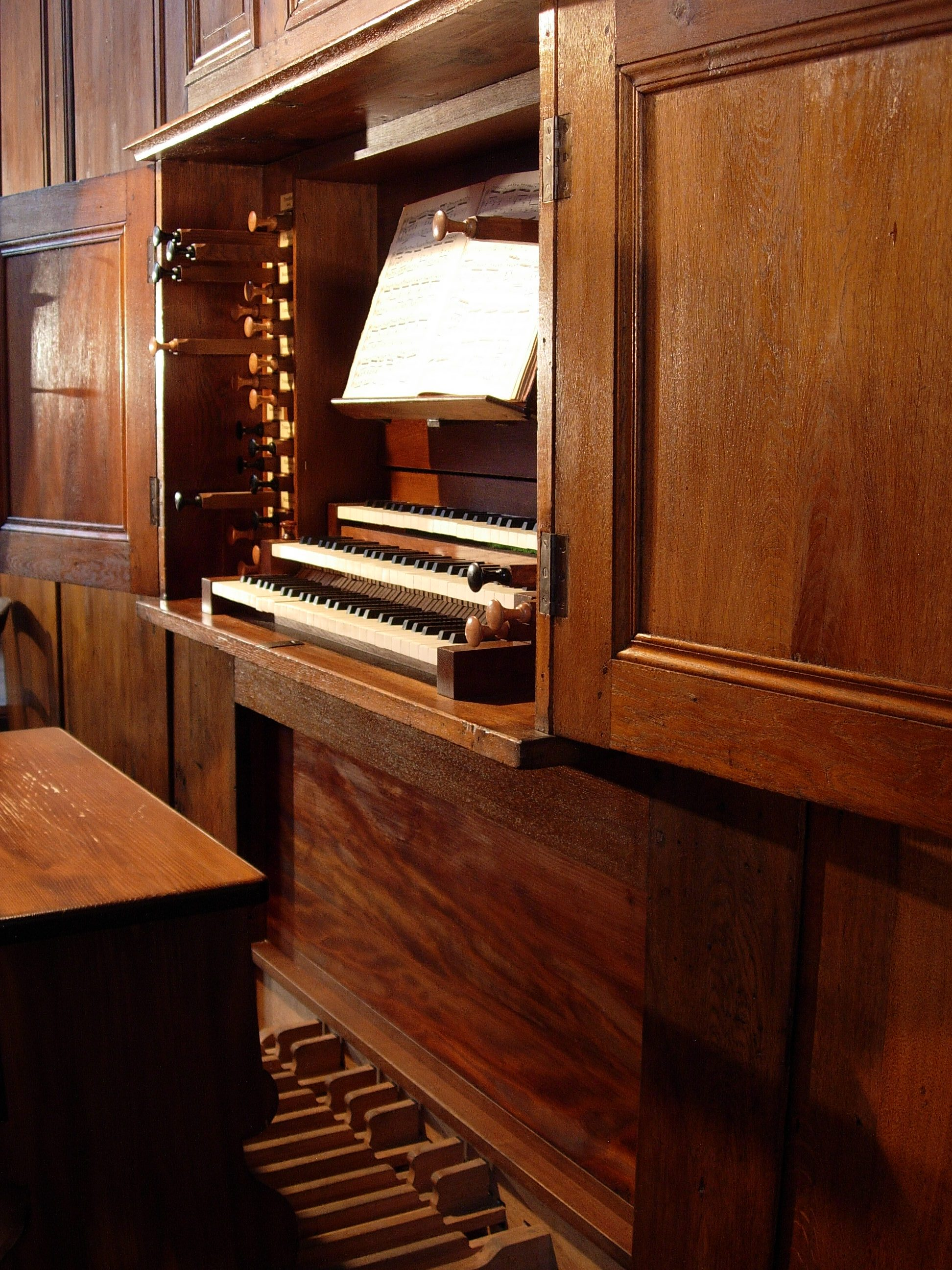 The three-manual console on the organ by Callinet in Notre-Dame's Church, Saint-Etienne, France